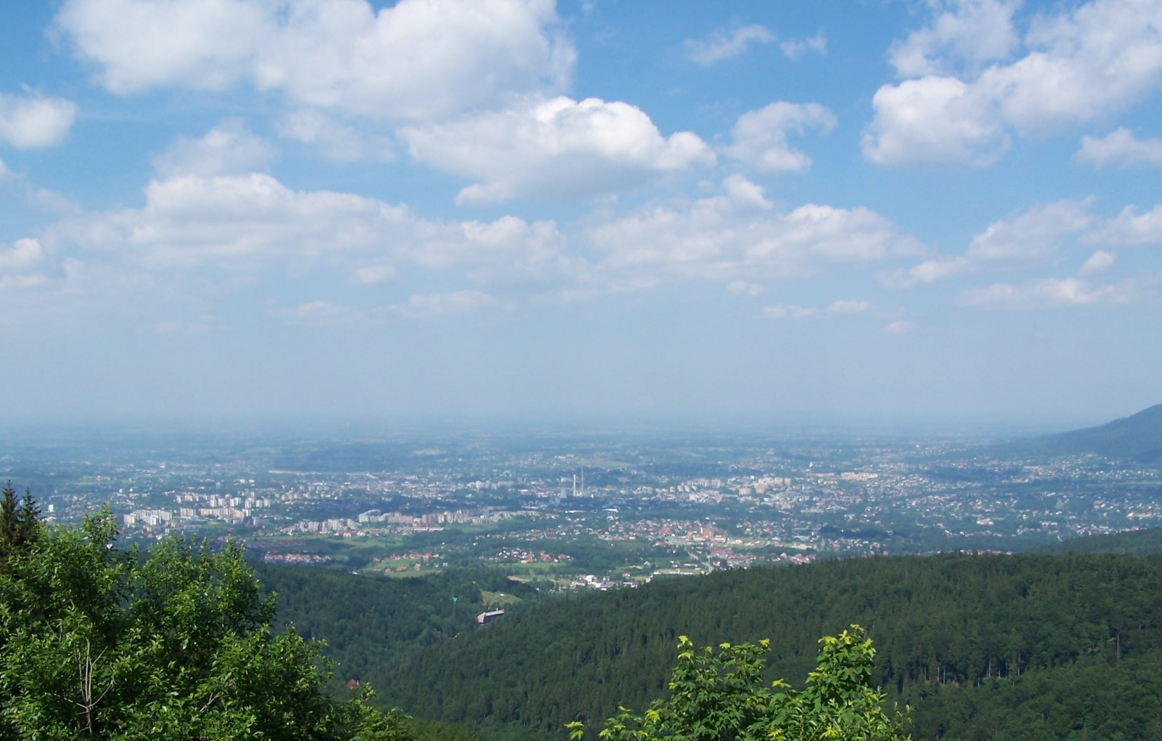 Photo made by me and my father during our mountain trip. City of Bielsko-Biała (Bielsko-Biała), Poland, from the mountain of Klimczok (Klimczok). Beskidy Śląskie mountains (Beskidy Śląskie, Beskids).